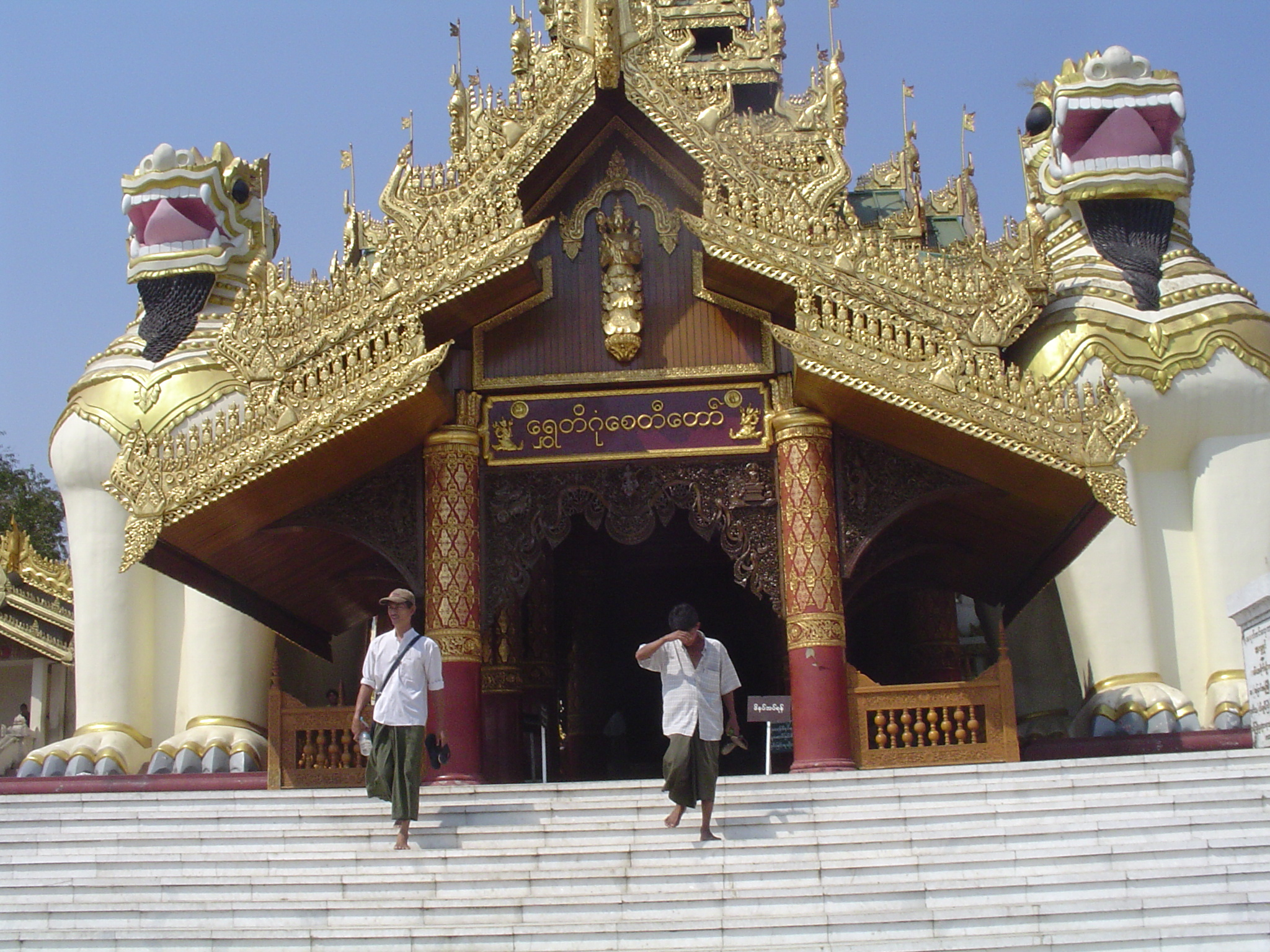 Southern entrance of Shwedagon Pagode